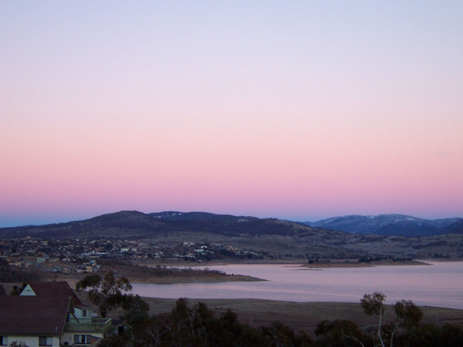 Jindabyne, New South Wales. I took this on holidays. Taken by Enoch Lau on 20 July 2005. As a courtesy, please let me know if you alter this image or this image description page. Original filename was 100_0454.JPG.